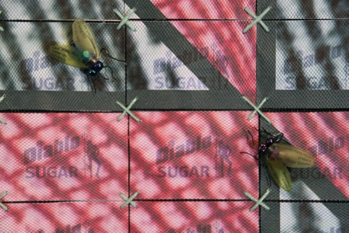 Fly Paper, detail of a quilt created by John Lefelhocz